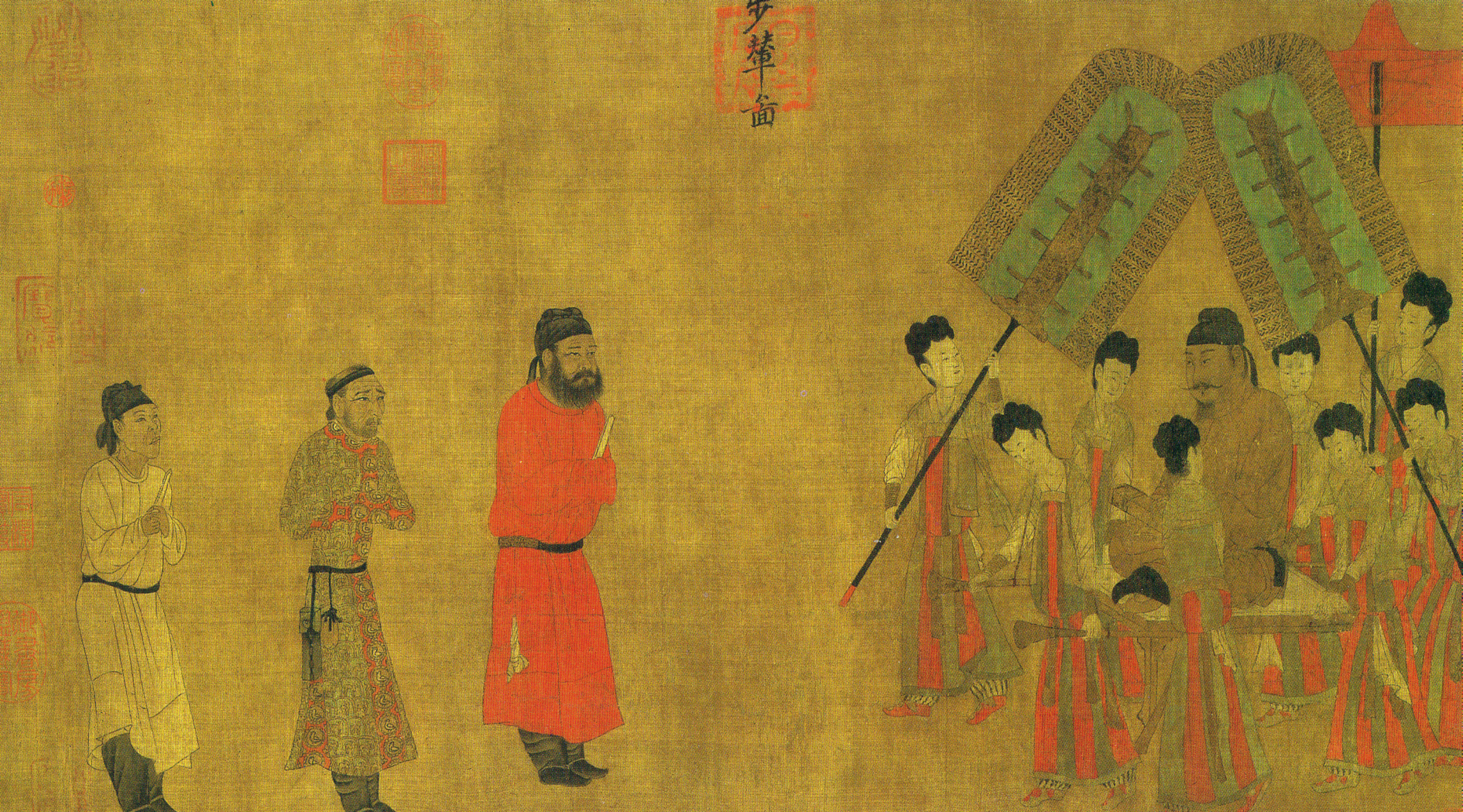 Tang Emperor Taizong gives an audience to Gar Tongtsen Yulsung, the ambassador of Tibet